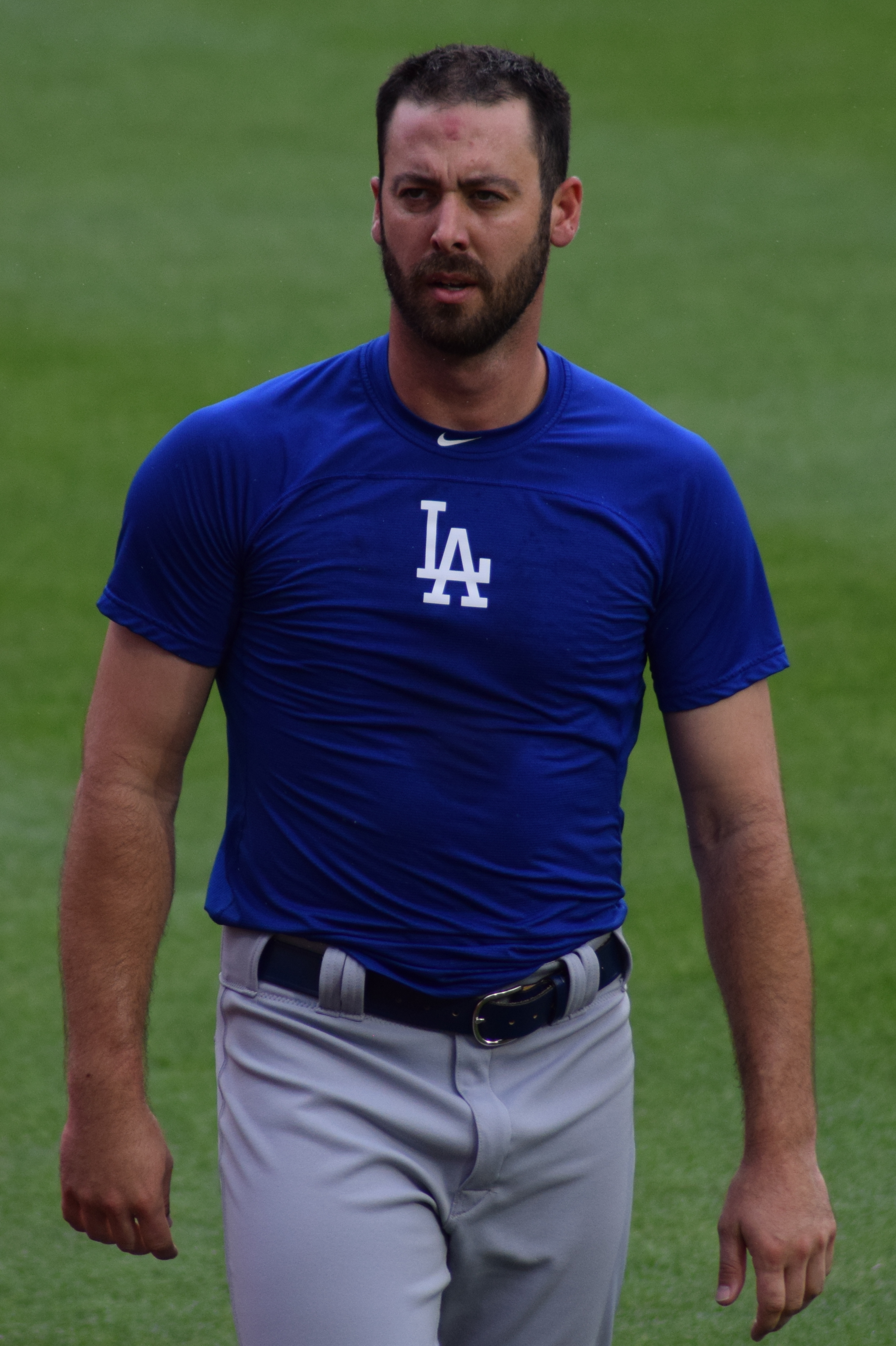 Los Angeles Dodgers relief pitcher Dylan Floro